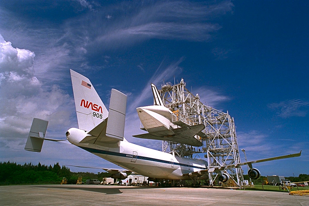 If a shuttle arrives on the Shuttle Carrier Aircraft after landing at another site, such as Edwards Air Force Base (EAFB) in California, it has to be removed using the huge 11-story-high Mate-Demate Device at the Shuttle Landing Facility. This operation is usually performed around midnight when winds are the most calm.